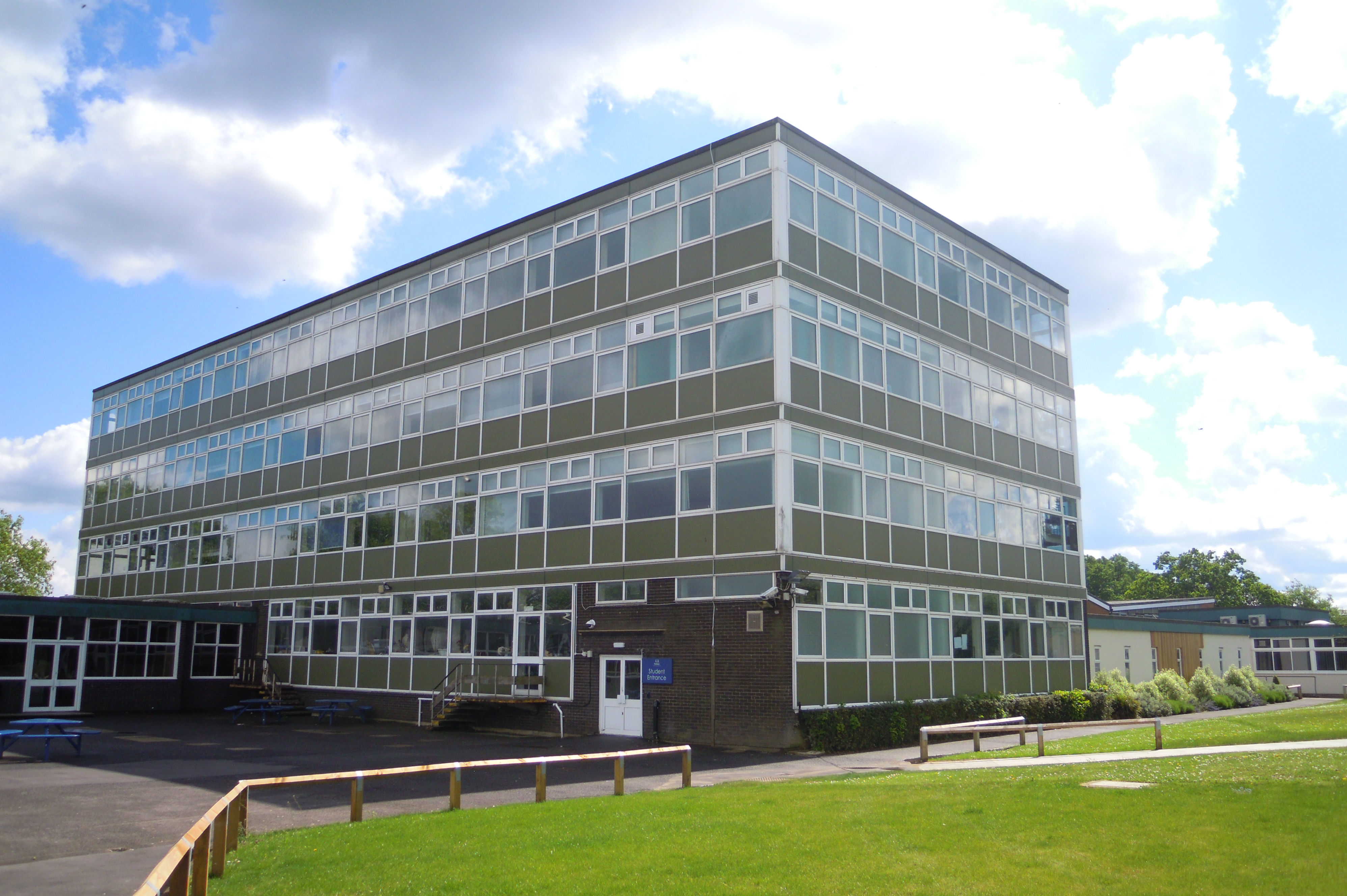 A teaching block at Farnham Heath End School in Farnham, Surrey in 2020